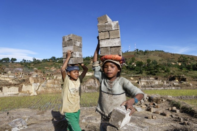 2017-12-13, hazardous child labour, mines and quarry - Young boys carrying bricks on their head. They work for a brickyard employing children at the entrance of Antsirabe, Madagascar.